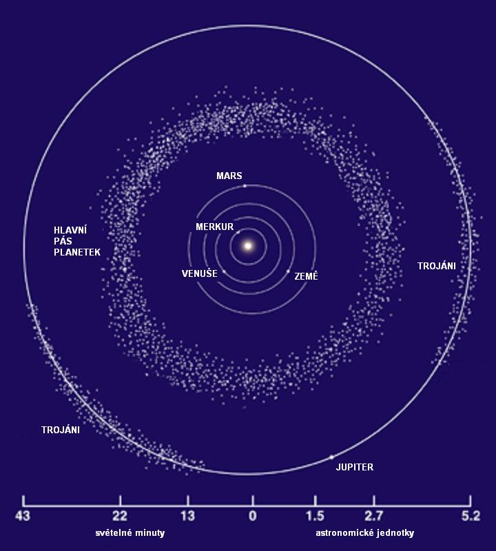 Image of the main asteroid belt between the orbits of Mars and Jupiter.